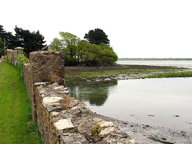 Looking across Bannow Bay. This view taken from the bridge in the north western corner of the grid square looks more or less east north east across the grid square.